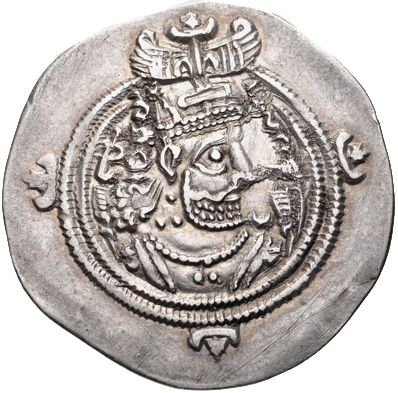 Coin of Khosrau IV